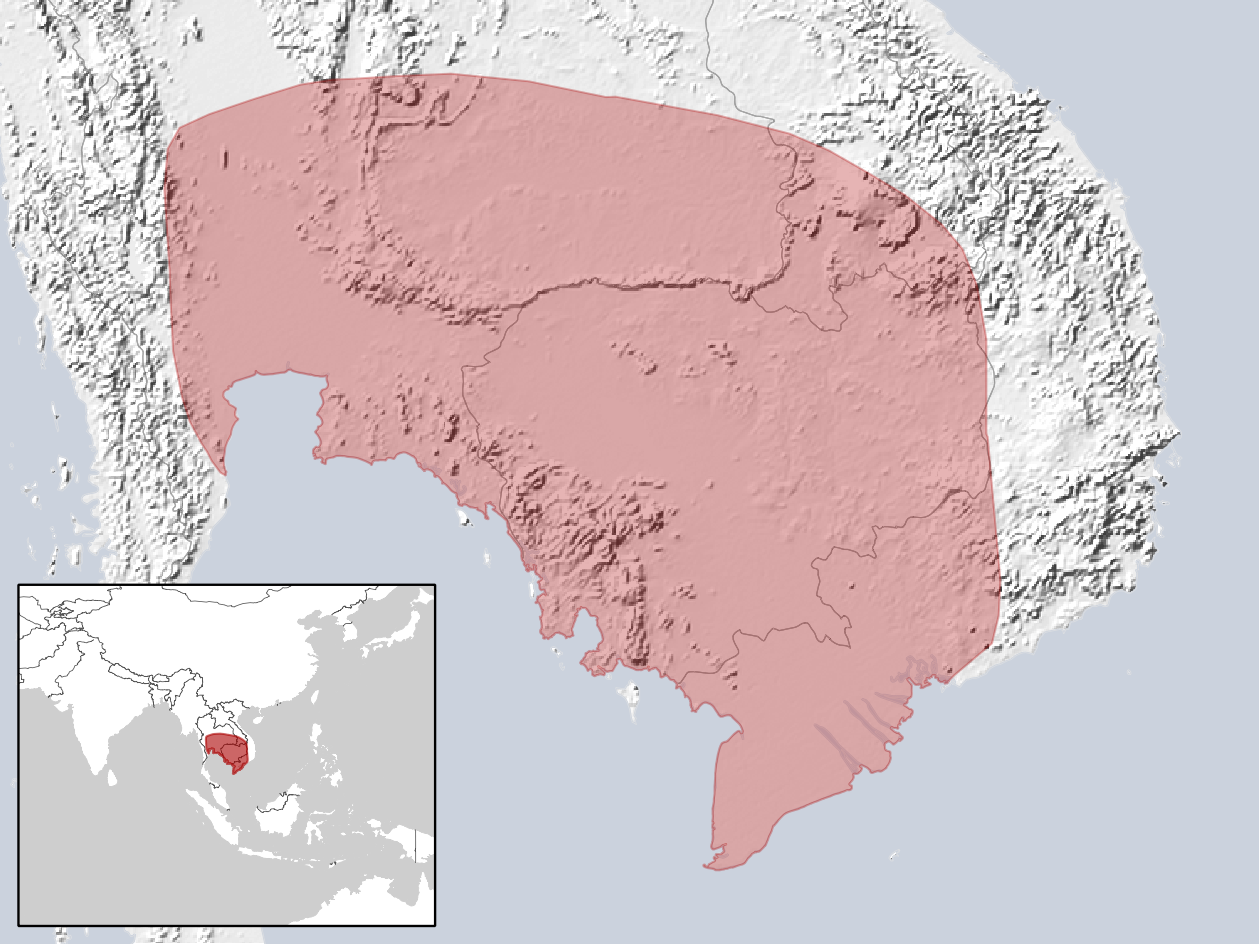 geographic distribution of Myotis rosseti